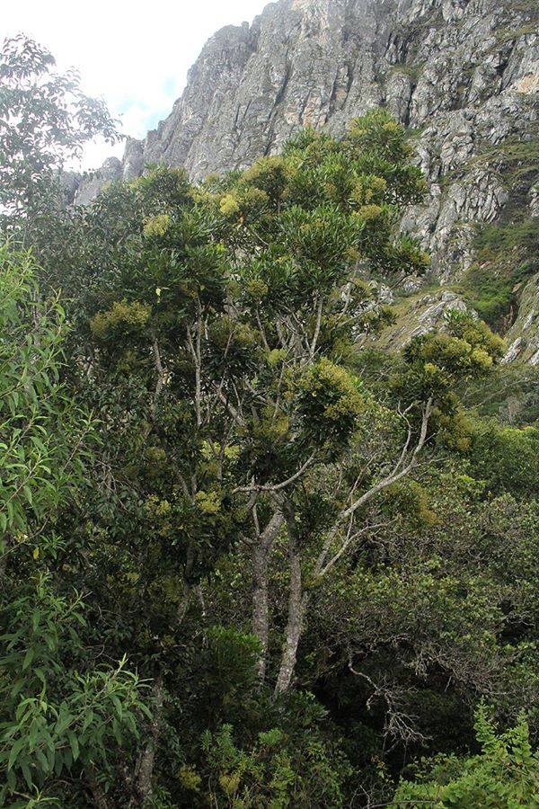 Habit of a False cabbage tree in a gwasha forest on the northern slopes of Monte Dombe, Chimanimani National Reserve, Mozambique